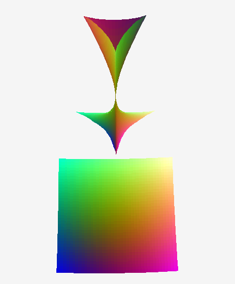 A surface with an elliptical umbilic, and its focal surface. Here each sheet form a tricusp figure which come together at a single point.